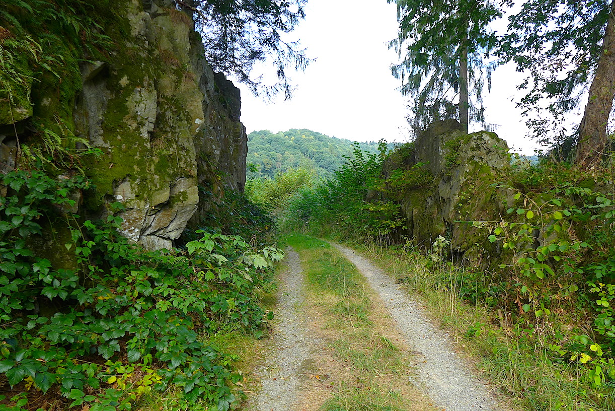 "Blade track" - the tourist marked route around the German city of Solingen (Northern Rhine-Westphalia). Third stage: Around the fortress of Schloss Burg and through the valley of a stream Esch. 8,1 km.